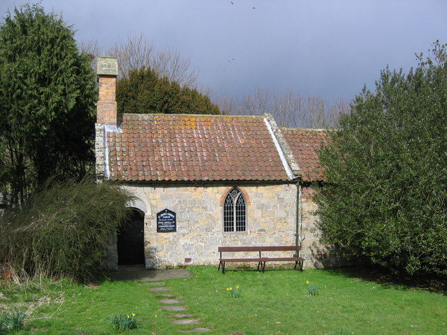 St. James Church, Fordon in the East Riding of Yorkshire, England.The little church is at the bottom of the road leading into the village. View from the road looking NW.